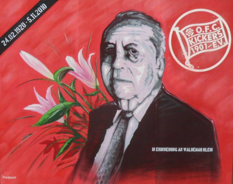 Waldemar Klein Portrait im alten Stadion (c) Artmos4 Graffiti